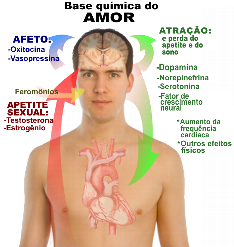 Portuguese version of simplistic overview of chemicals implicated in love. Sources are found in main article: Wikipedia:Love. Model: Mikael Häggström.